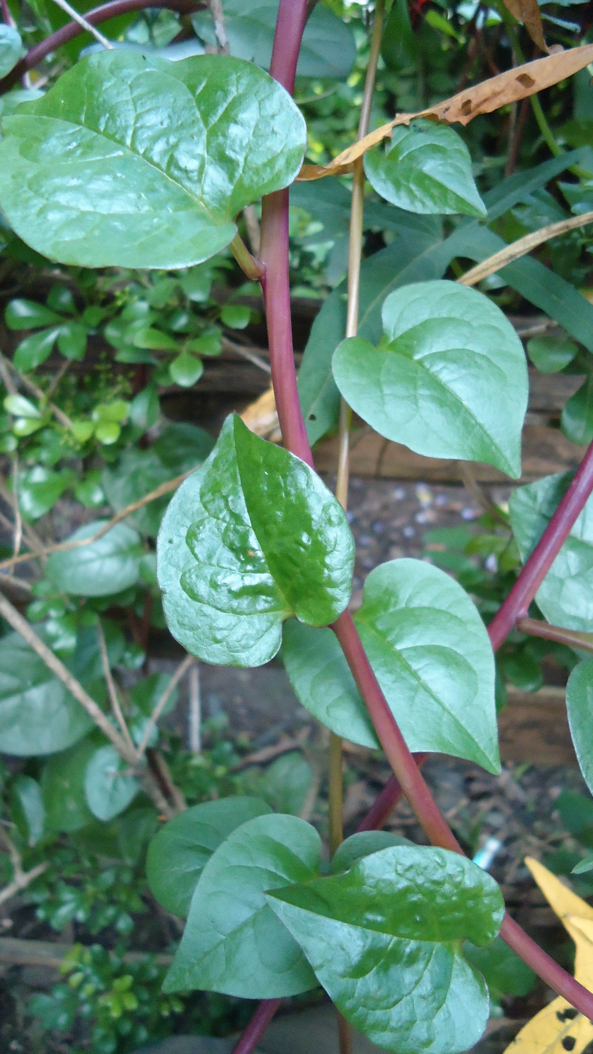 Basella rubra, Malabar spinach, Local name: 'Alugbati' Synonymous with Basella alba